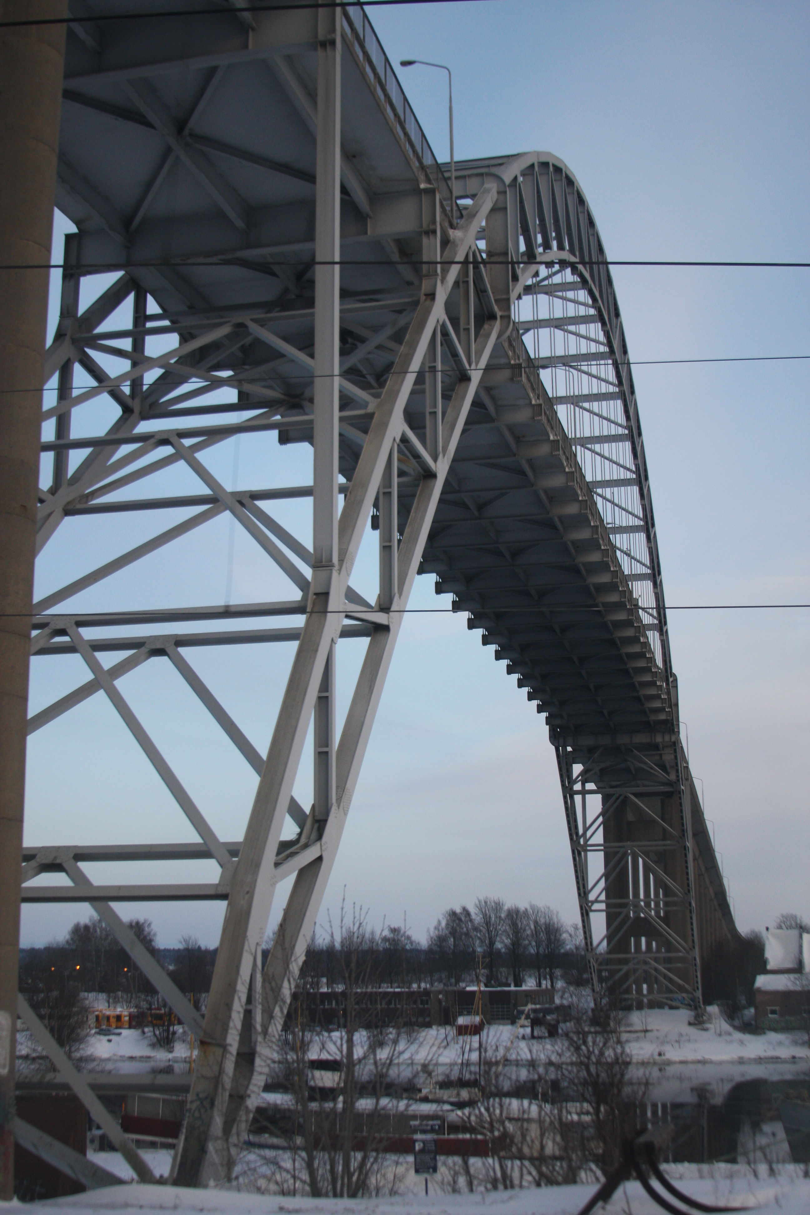 Fredrikstadbrua (Fredrikstad Bridge), Fredrikstad, Norway.